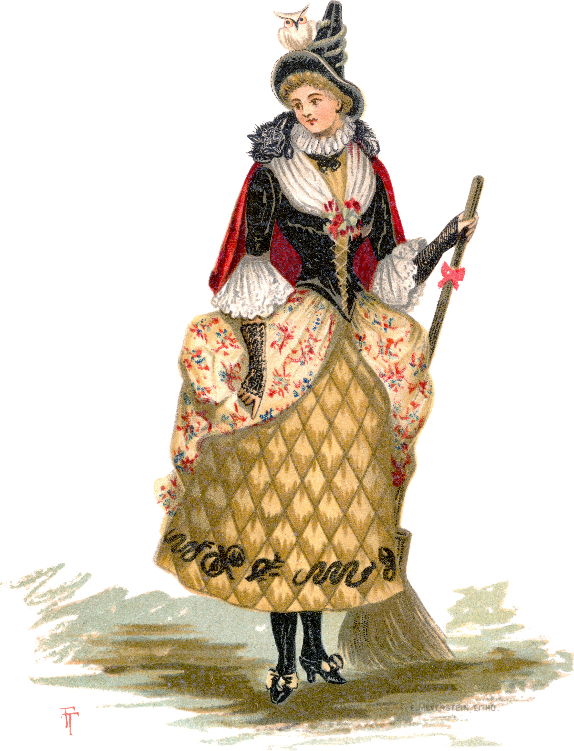 WITCH. HUBBARD, MOTHER, Mother Bunch, Mother Shipton, Nance Redfern, Dame Trot, Enchantress, Witch, and Fairy Godmother are all dressed much alike. Mother Hubbard in a quilted petticoat touching the ground ; a chintz tunic open in front, bunched up ; muslin apron ; low velvet bodice with deep point, laced across the front ; sleeves to elbow with ruffles ; muslin kerchief, close ruff ; spectacles, mittens, and stick ; a lace cap, and a high-pointed velvet sugar-loaf hat with peacock's feather over it ; high-heeled shoes with rosettes ; a small white dog ; the hair powdered or not. Or blue satin petticoat, cerise moiré skirt, and laced body, looped up. Coat, shoes, loaf of bread bottles of white wine and red, and bone &c. ; highlow shoes, hair poudré, with small steeple-crowned hat, lace apron and kerchief, white Pomeranian dog, crook, &c. ; ornaments, diamonds. Mother Bunch is always poudré ; the same in other respects. Dame Trot wears pointed hat not so high. Nance Redfern, Mother Shipton, and the Old Woman who Swept the Sky, being witches, carry a broom, and on the skirt are toads, cats, serpents, curlews, frogs, bats, and lizards in black velvet ; a serpent twisted round the crown of hat, and owl in front, a black cat on shoulder. Sometimes a scarlet cloak is attached to the shoulders, and the velvet bodice is high with pendant sleeves.